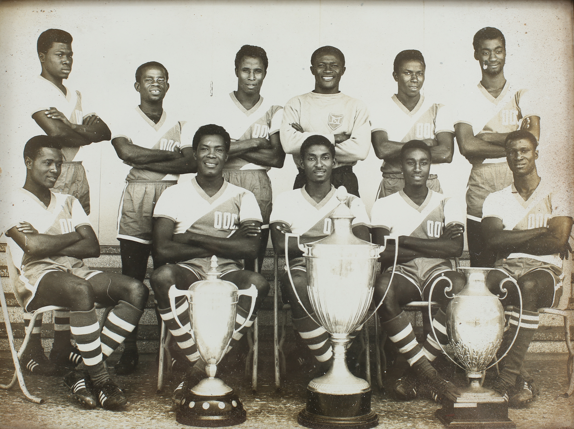 Ghana football team members in the 1960s pose with some of Ghana's international trophies won. The elite group of football players were hand picked, from other professional teams by Kwame Nkrumah.